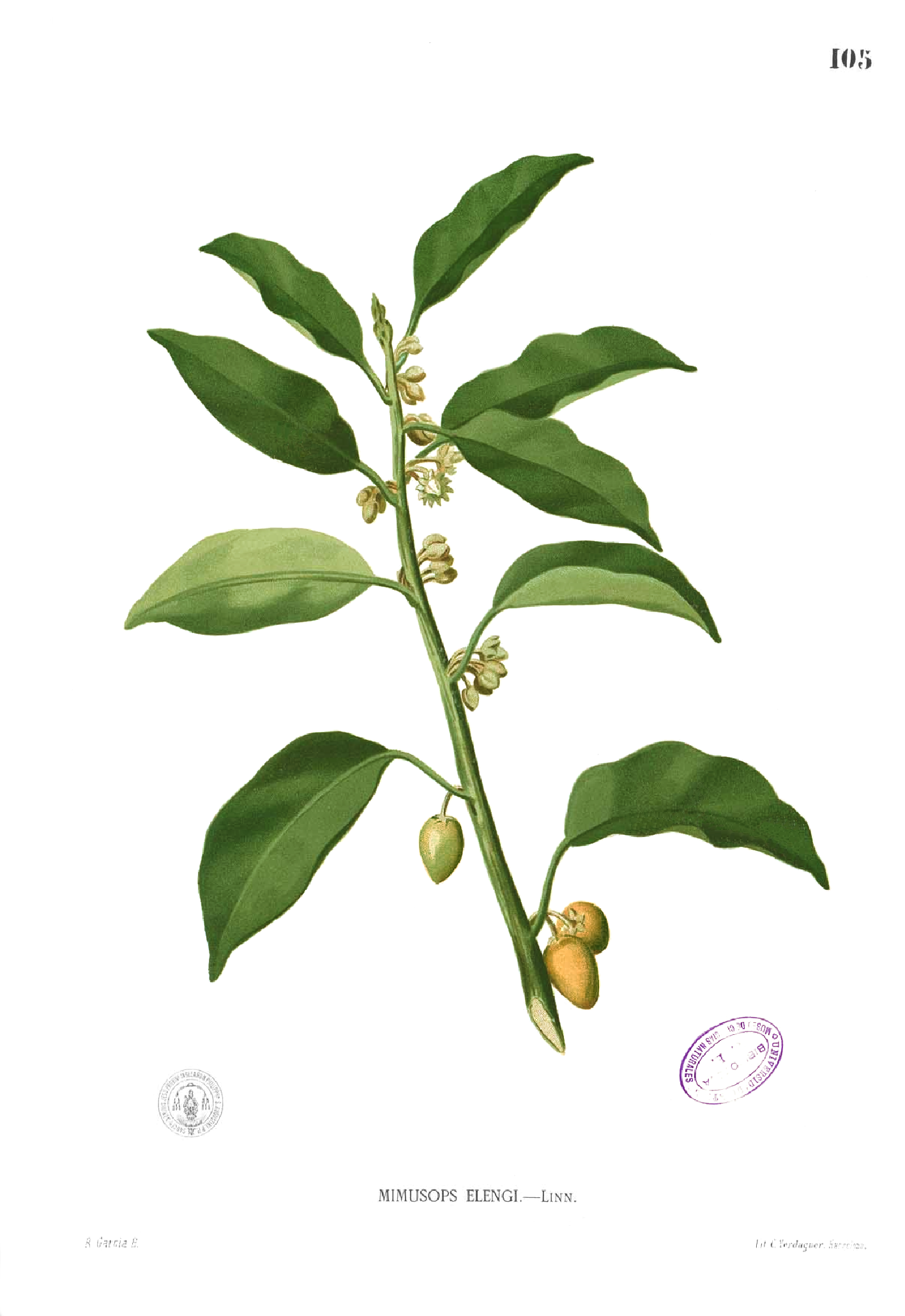 Plate from book